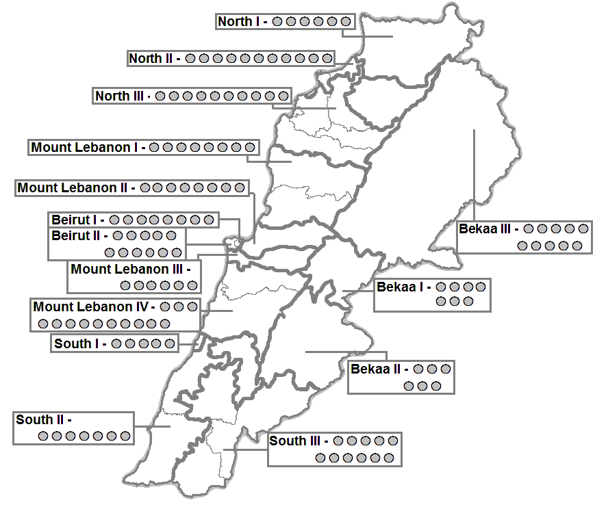 Map of 2017 Vote Law electoral districts and distribution of seats. Based on File:Bekaa I electoral district (2017 Election Law).png